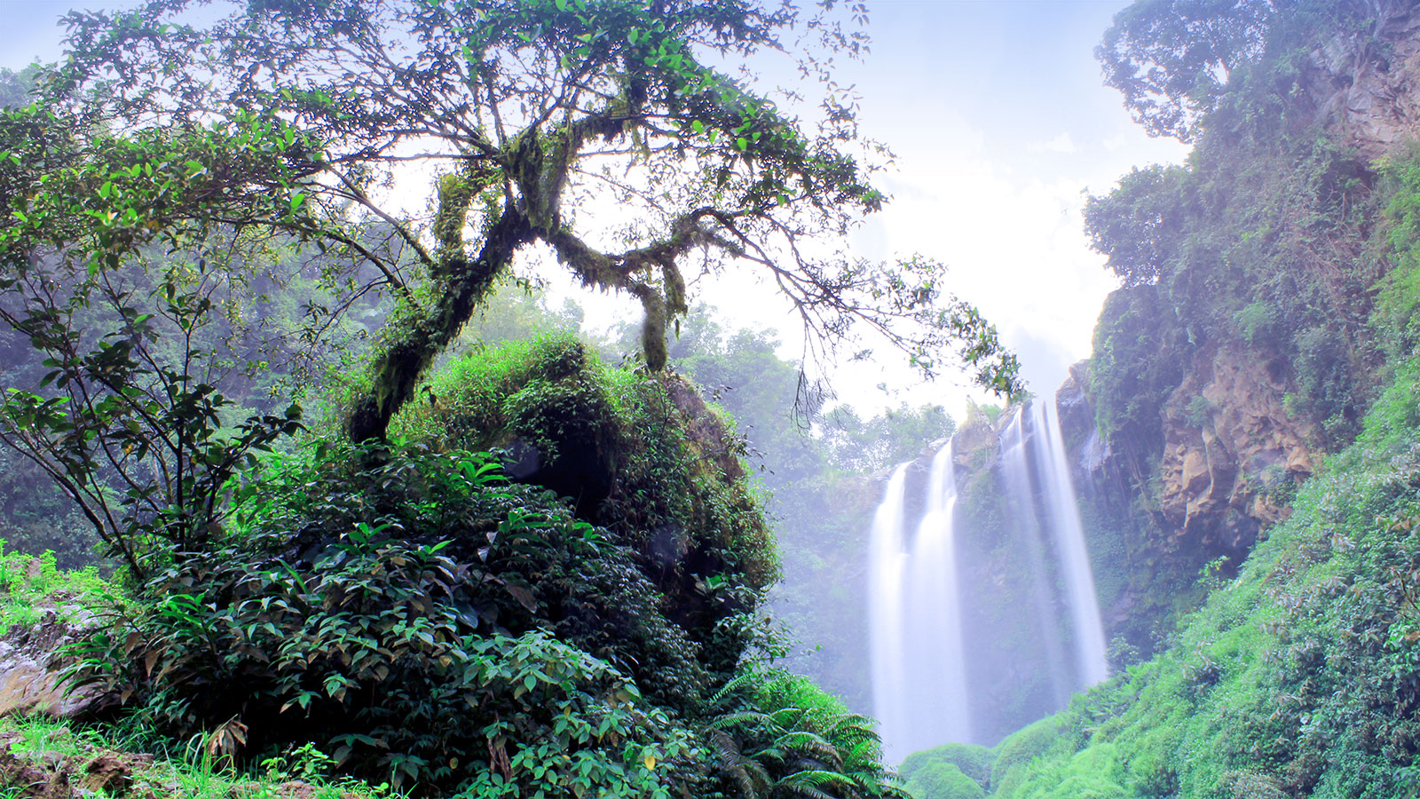 tombolo pao waterfall